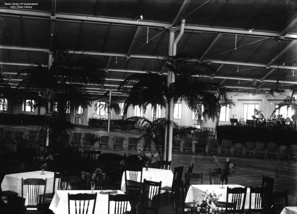 Tables and chairs set up in the woolstore at New Farm, Brisbane, for the Vice-regal ball held in honour of the visiting Duke and Duchess of York, 1927 View of portion of new woolstore of the Australian Estates and Mortgage Company Limited at New Farm, decorated for the Vice-regal ball held in honour of the Duke and Duchess of York on Thursday 7 April 1927. See: The Queenslander, 14 April, 1927, p. 5; and also 'The Rose Ball at New Farm', The Courier-mail, 8 April, 1927, p. 26. According to The Queenslander, owners of the new woolstore were the A. M. L. & F. Company. The Courier-Mail states 'the area employed for the ballroom was 16,000 square feet, or three times the size of the Crystal Palace'. The Royal couple were received at the entrance, and conducted then to the ballroom, where they passed into a large reserved space round which were arranged rows of chairs for the other guests. Decorations included large flags and palms. Tall palms concealed the supporting pillars. Rose and green were the only colours employed. The Trocadero band was stationed on a raised platform, banked with closely-set palm fronds. This dais is visible in the picture. (Description supplied with photograph).